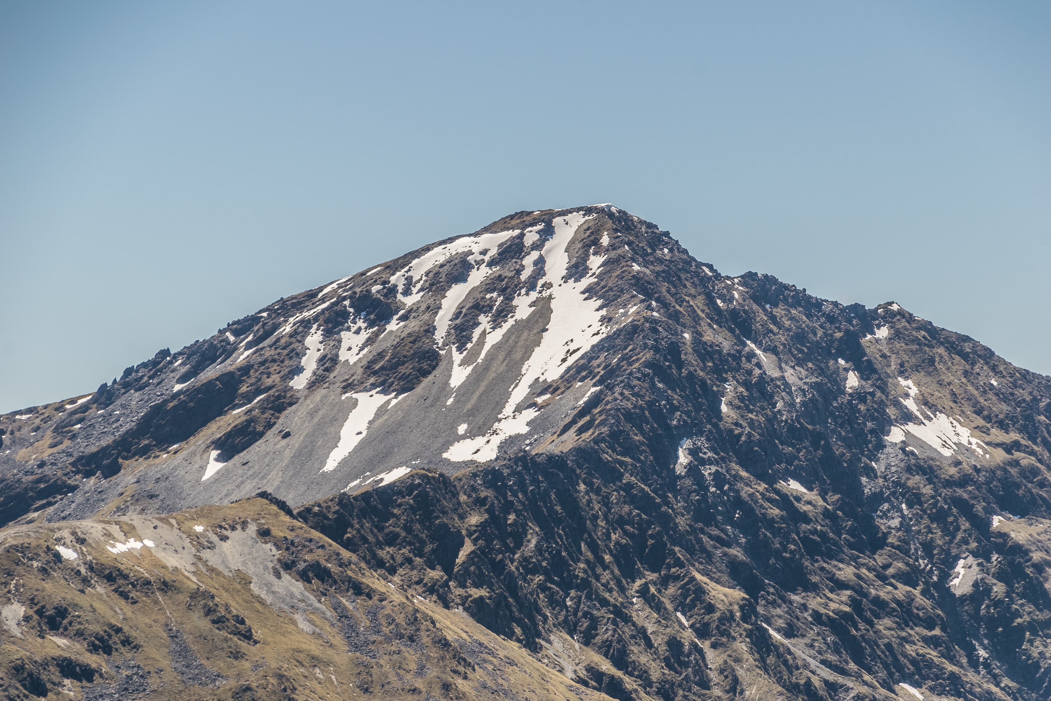 Mount Freyberg (1817 m) in West Coast region, South Island of New Zealand